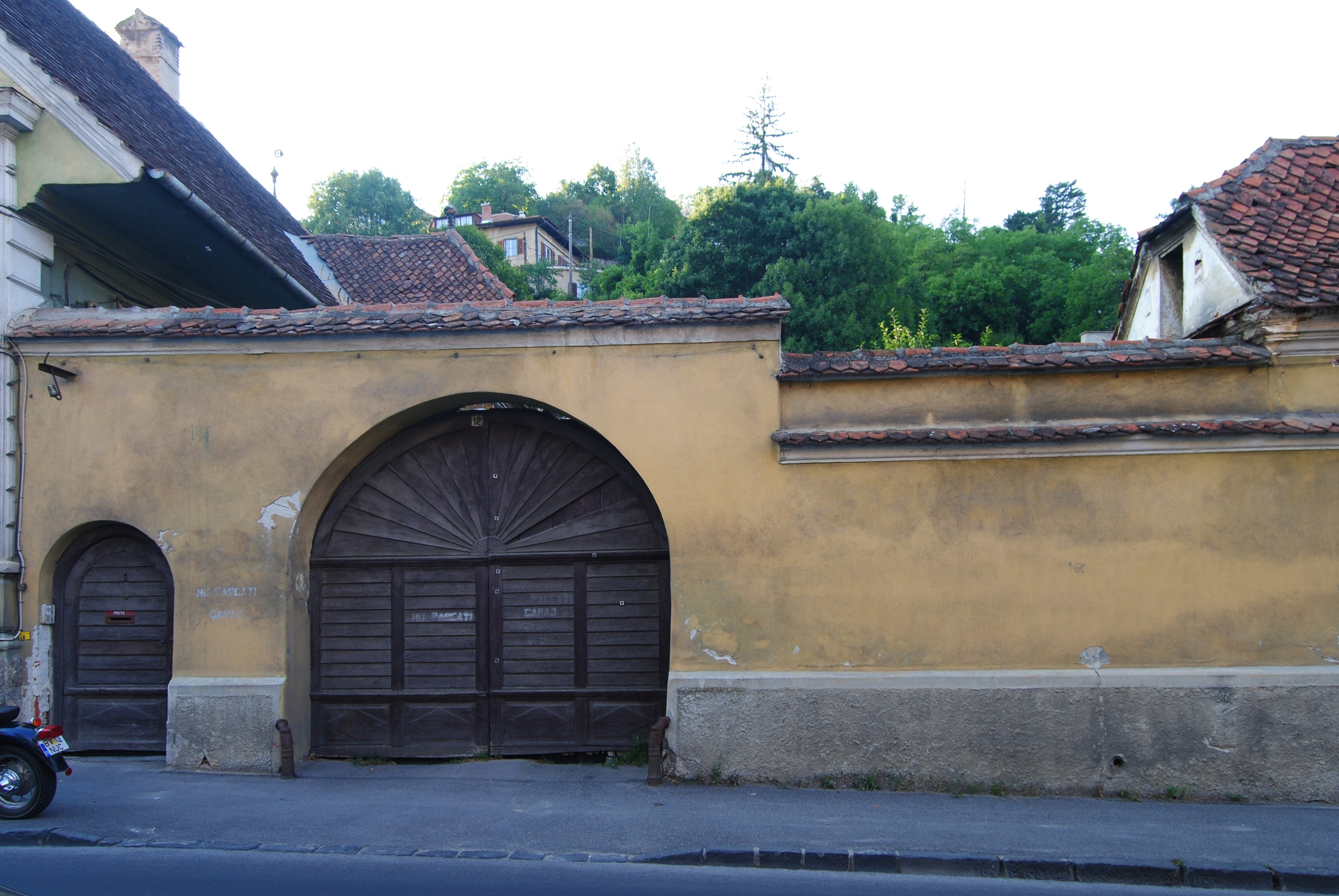 Bălașa Brâncoveanu house, 12 st. Ct. Brâncoveanu, Brașov, Romania